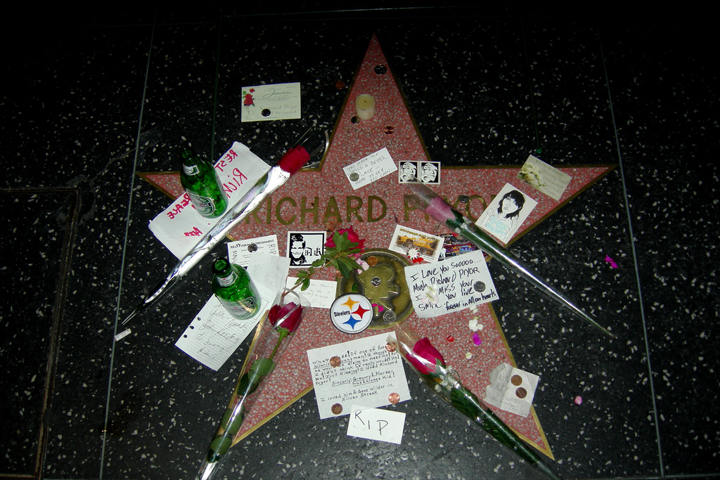 Richard Pryor Hollywood star. The star is located at 6438 Hollywood Blvd.